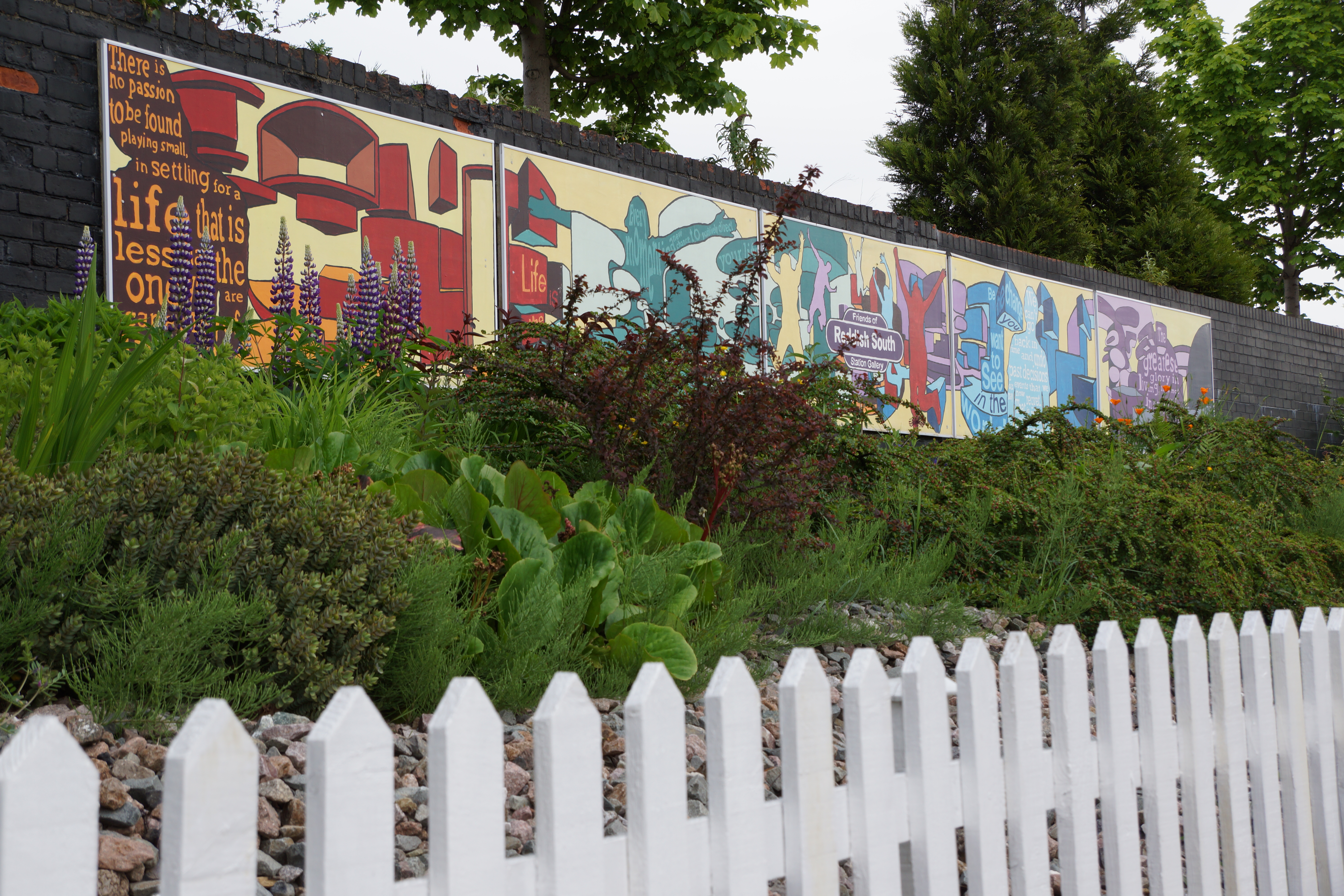 The recent flower-bed, fence and art-work at Reddish South railway station.